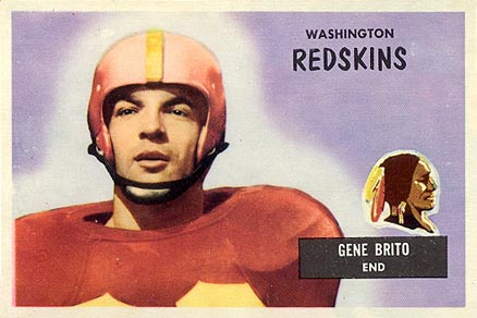 American football player Gene Brito - 1955 Bowman on a 1955 Bowman card.